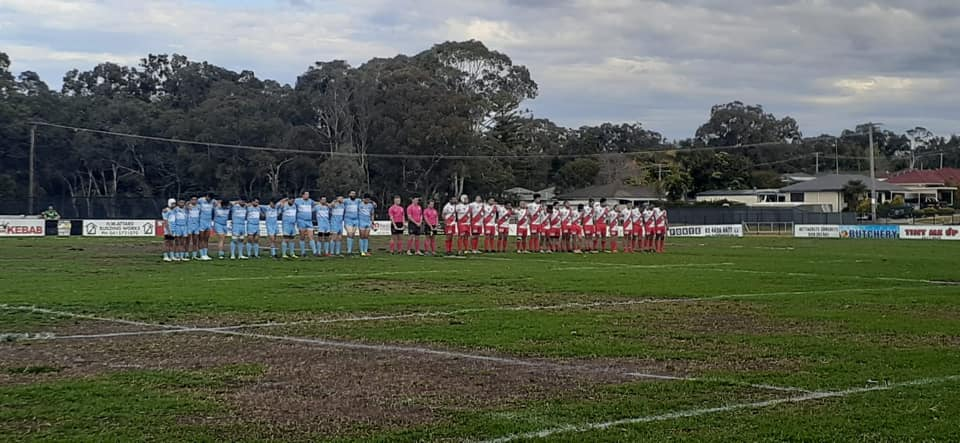 The Incas lining up with Uruguay before their clash at Waminda oval.